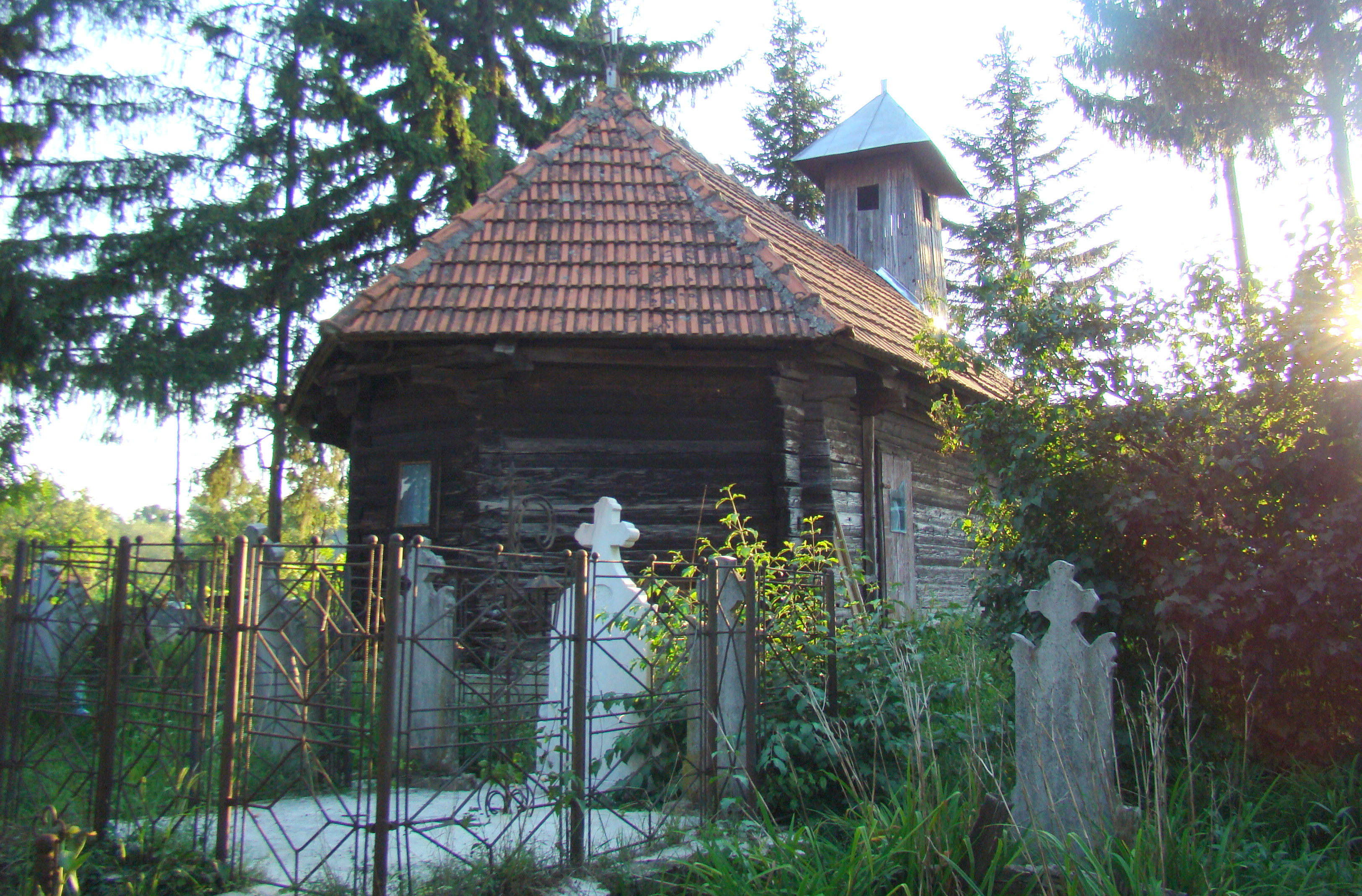 Wooden church in Pârvulești, Gorj county, Romania